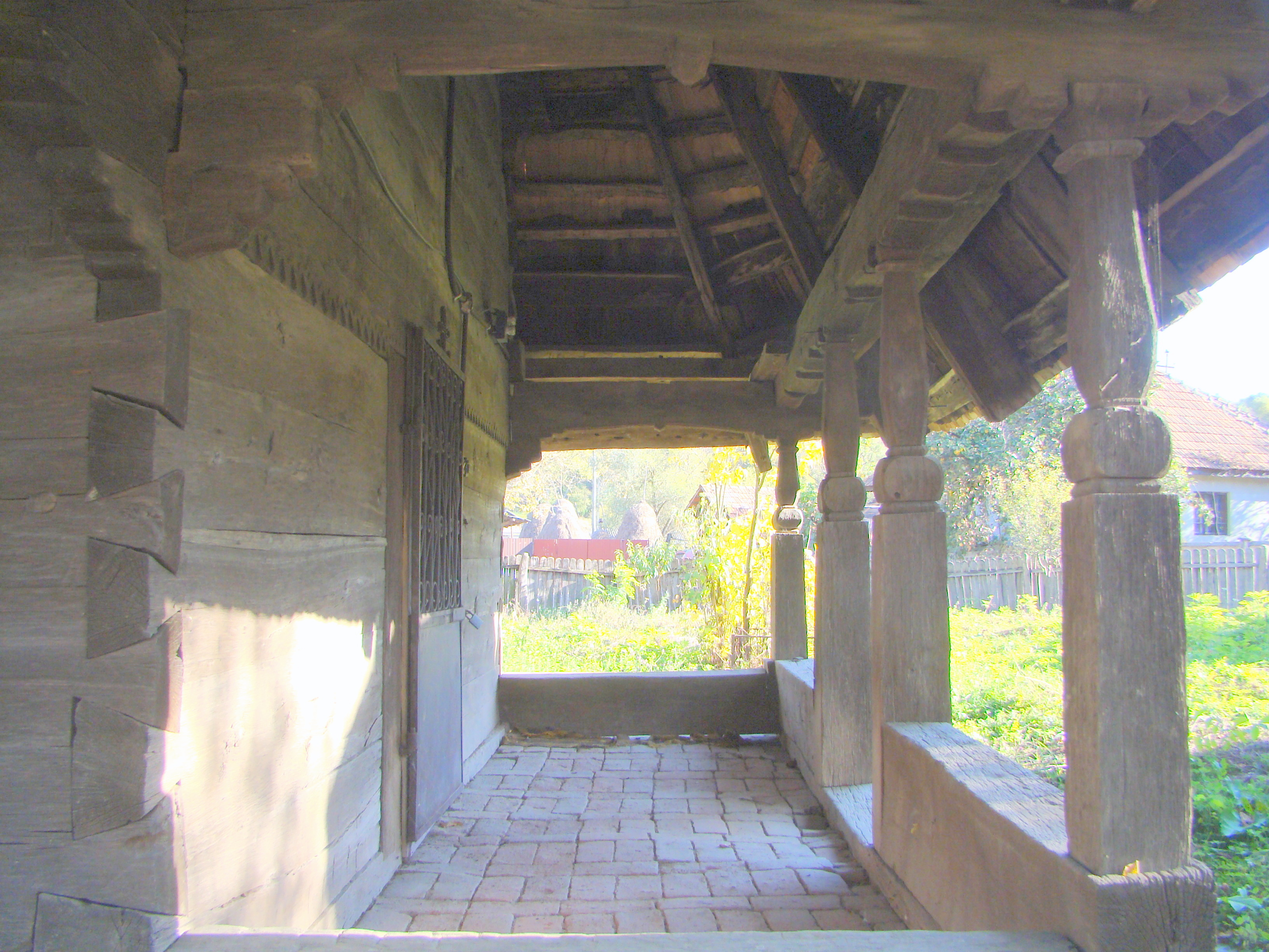 Wooden church in Sura, Gorj county, Romania